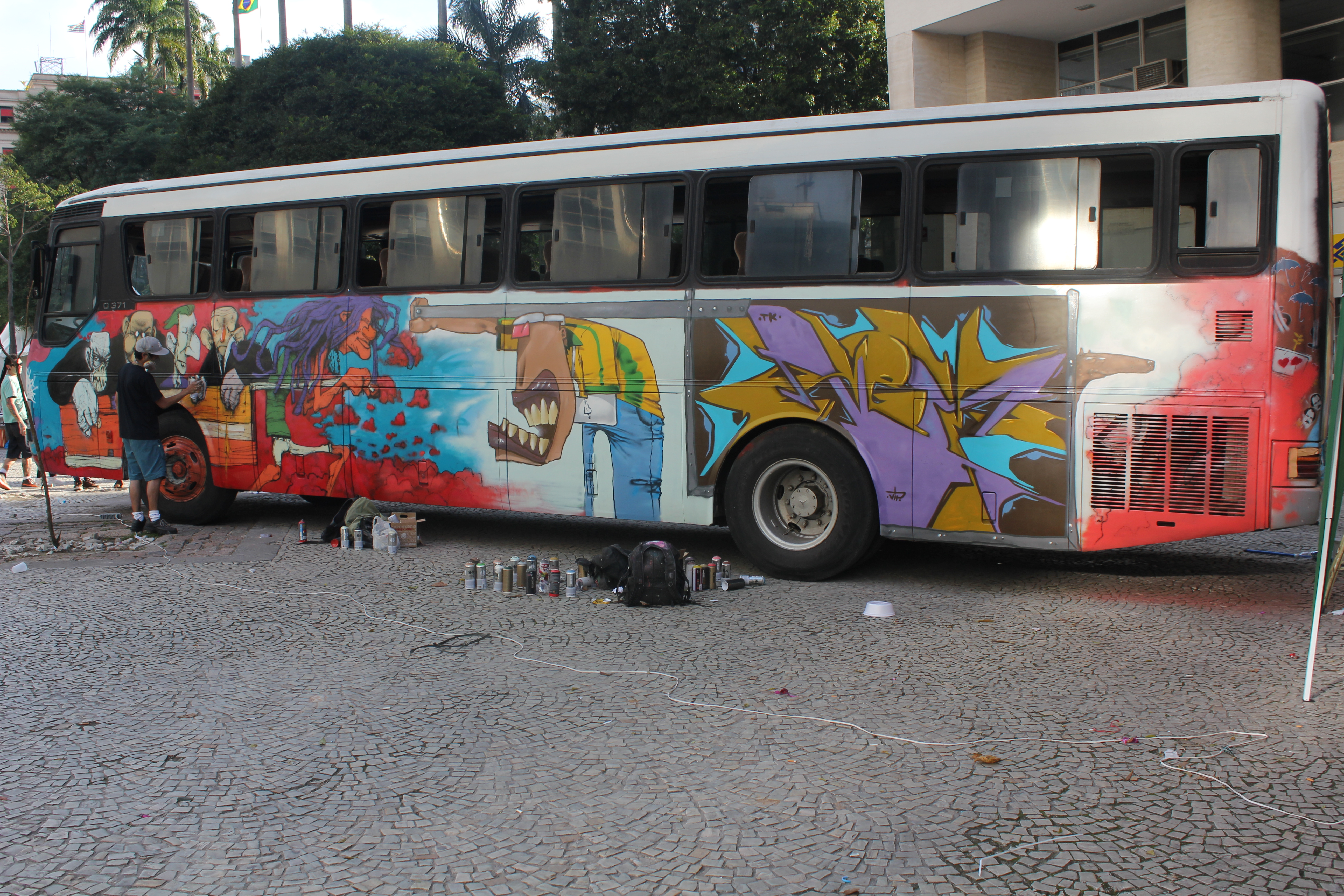 Brazilian Hacker Bus (Ônibus Hacker), a mobile hacklab bought after a crowdfunding campaing.